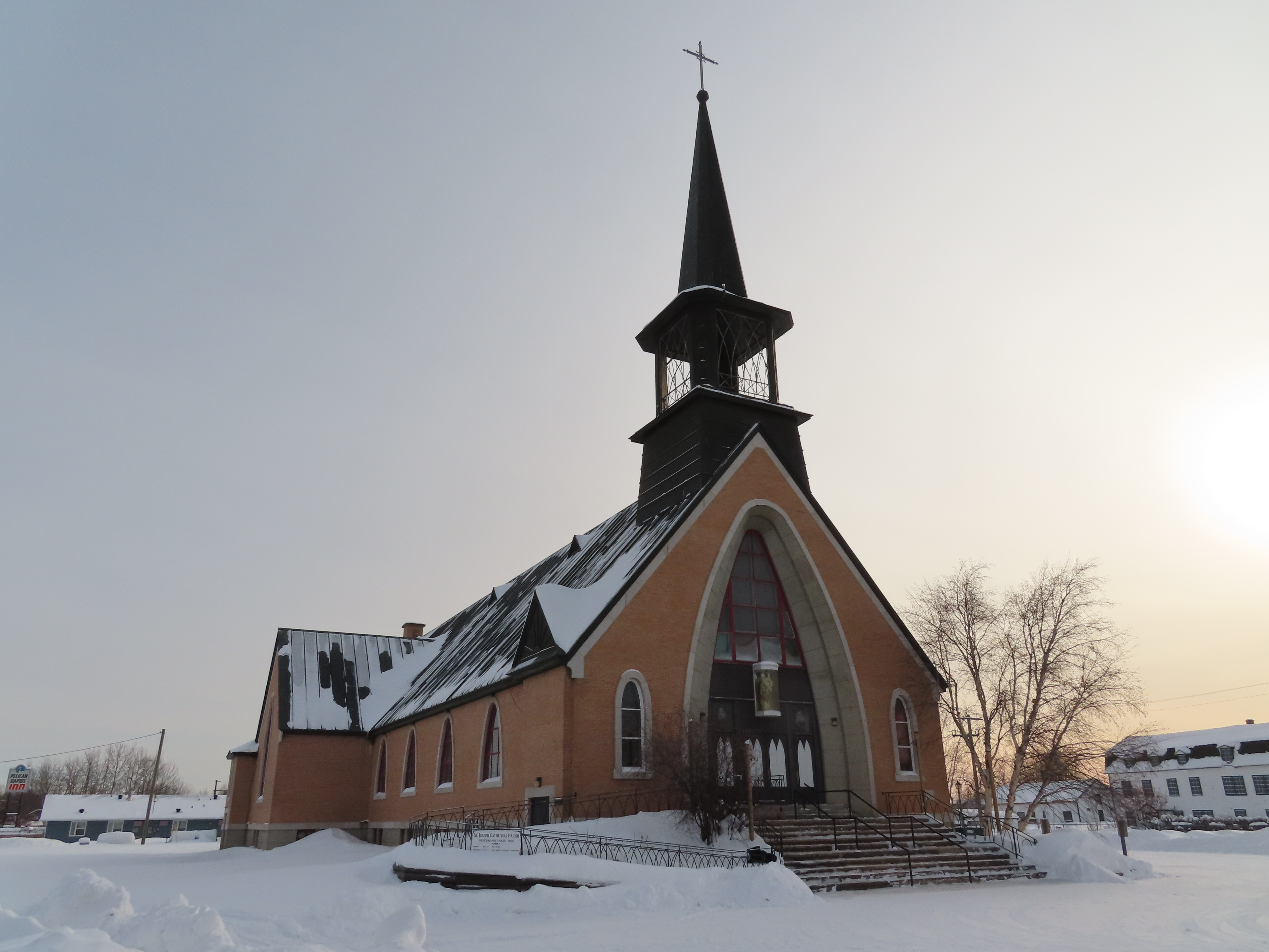 St. Joseph Cathedral in Fort Smith, NT. One of the largest and most prominent buildings in a small town.